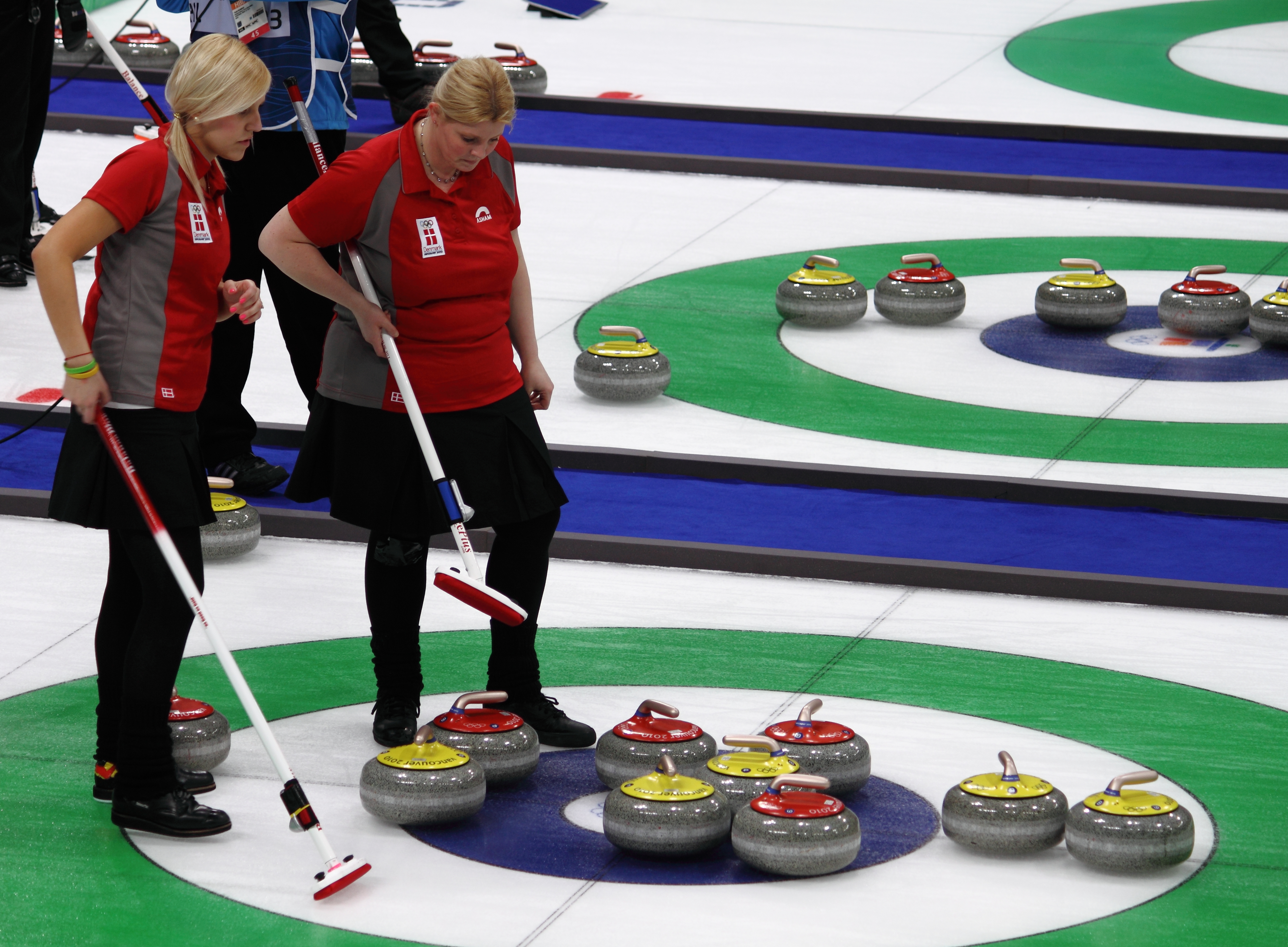 Madeleine Dupont (left) and Angelina Jensen (right); 2010 Vancouver Olympic Games - Women's Curling - Preliminary from Vancouver Olympic Centre